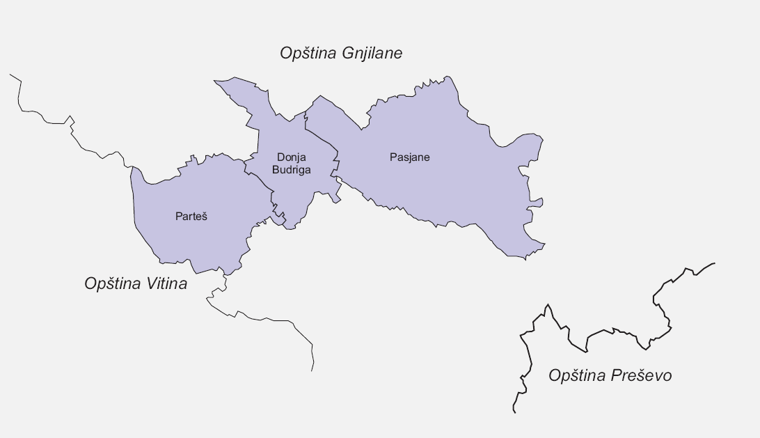 author: Varjačić Vladimir; source: Zakon o administrativnim granicama opština, Skupština Kosova, 20 February 2008